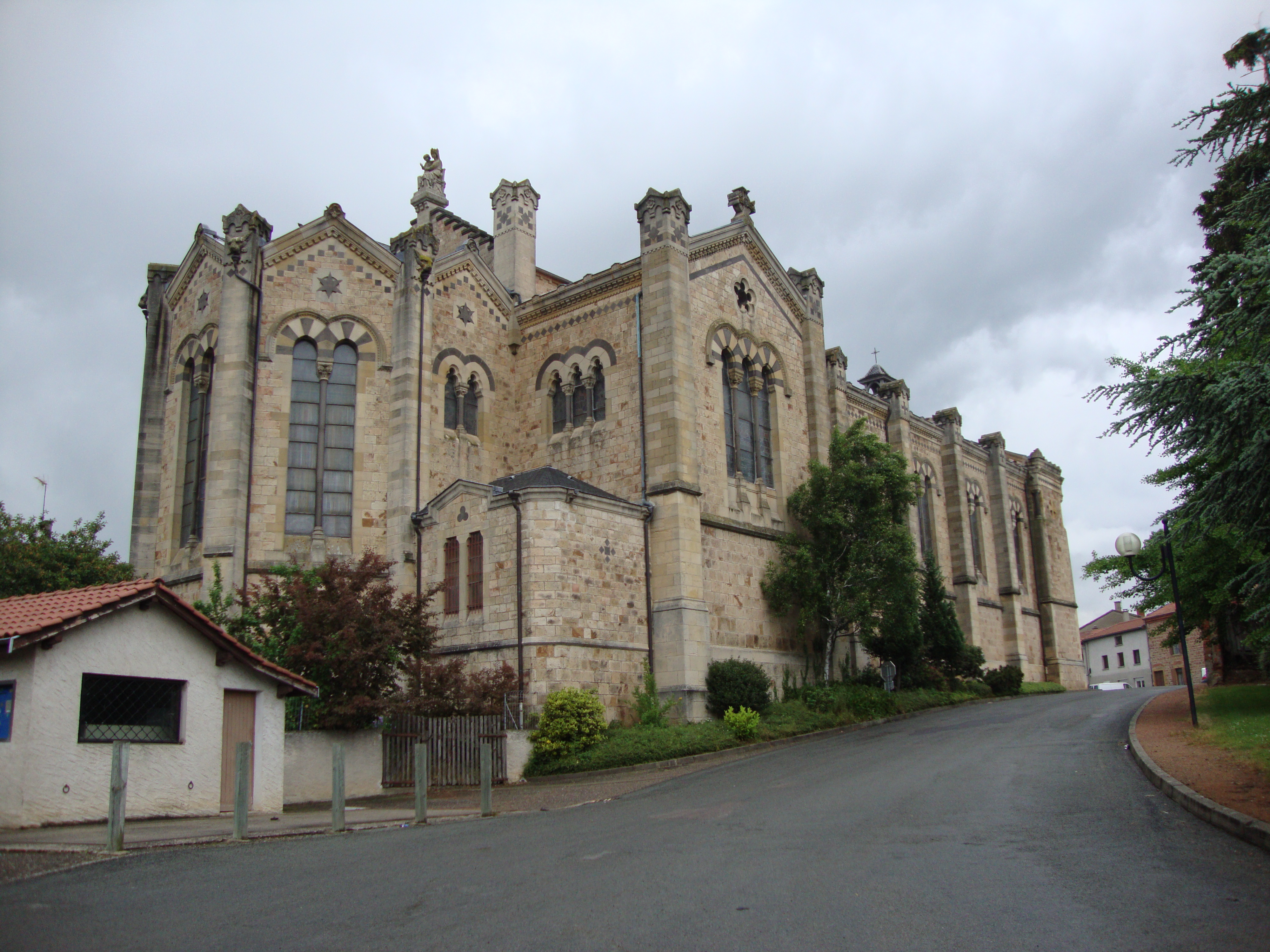 Neulise,(Loire, Fr) église Saint Jean Baptiste